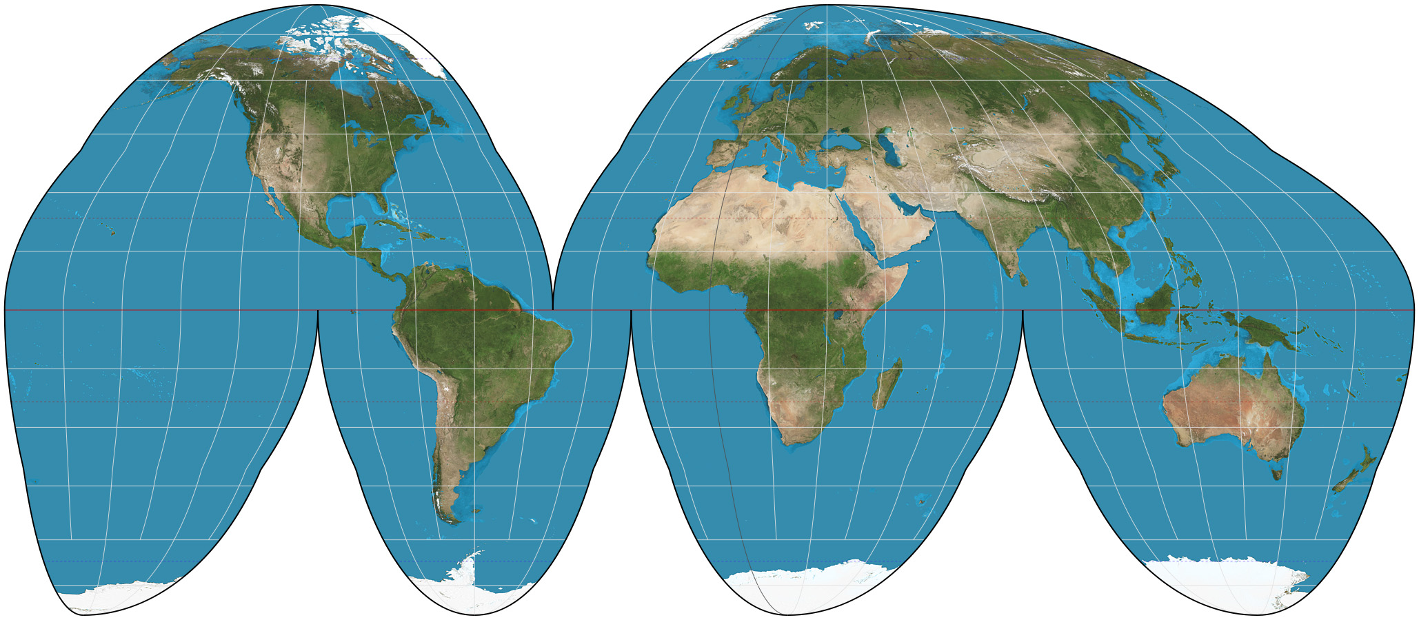 The world on Goode’s homolosine projection. 15° graticule. Imagery is a derivative of NASA’s Blue Marble summer month composite with oceans lightened to enhance legibility and contrast. Image created with the Geocart map projection software.